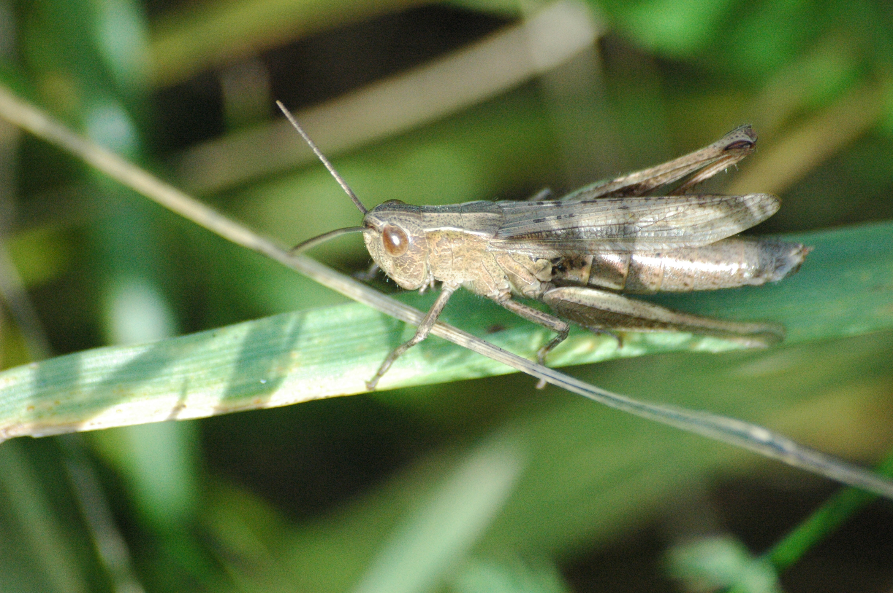 Grasshopper